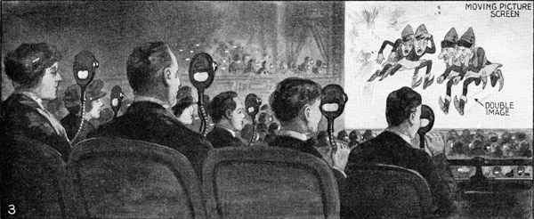 An audience watching a 3-D movie projected with the Teleview system, 1922